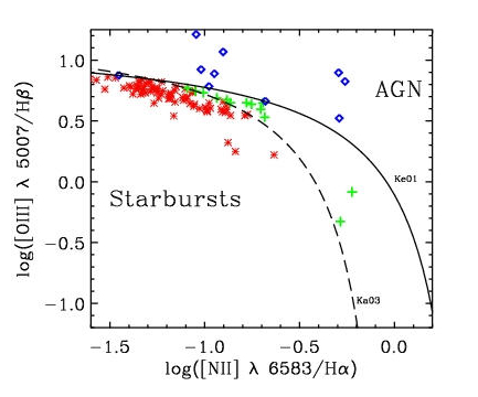 Graph plotting Peas against AGNs